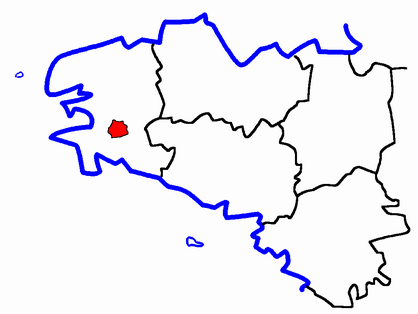 Description: Map for localisazion of cantons of Bretagne region in France Source: made by Hervé Tigier in april 2005 from another large map (published in 1990)